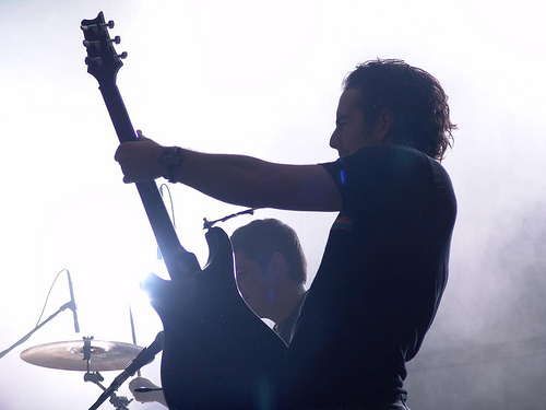 Arturo Arredondo, el guitarrista de Panda.